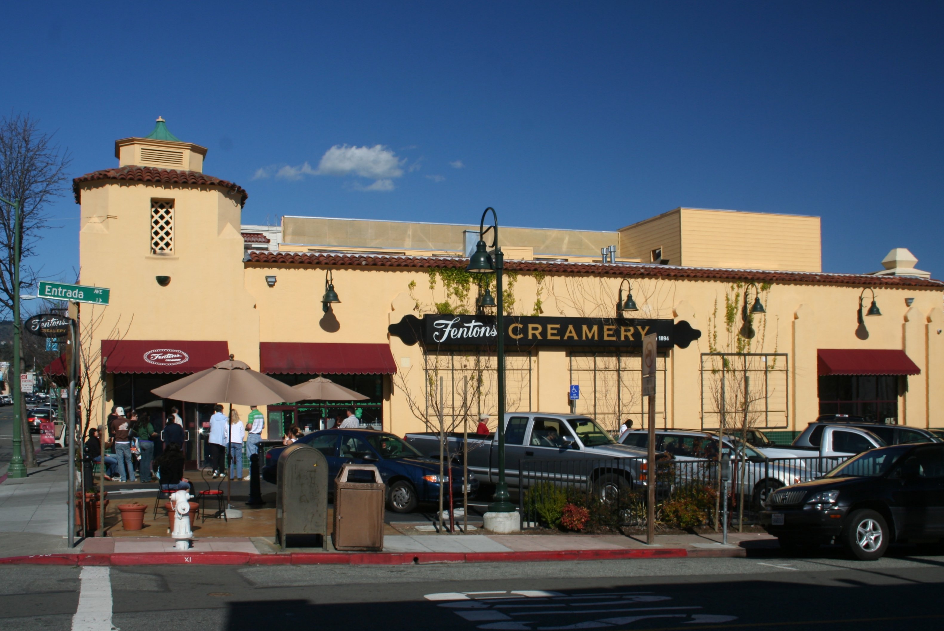 Fentons Creamery, an ice cream parlor on Piedmont Avenue in Oakland, California. Photographed by and © David Corby (User:Miskatonic, uploader) 2006